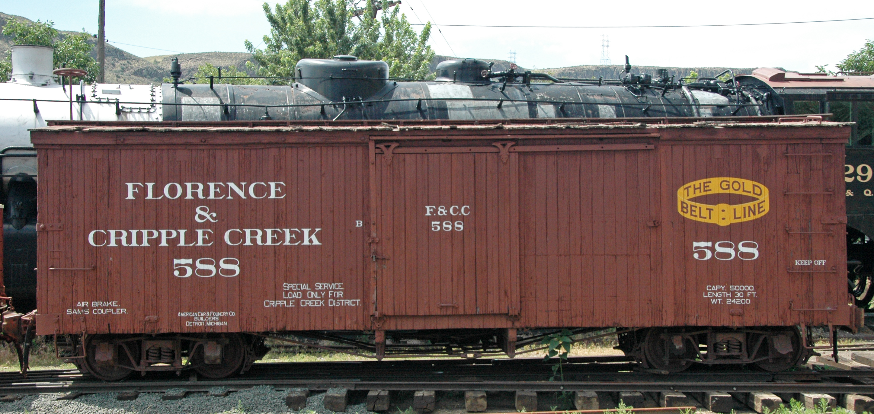 This narrow-gauge, wooden boxcar was made in 1898 for the Florence & Cripple Creek Railroad in central Colorado, USA. It is now on display at the Colorado Railroad Museum in Golden, Colorado. The "Gold Belt Line" logo refers to the Cripple Creek gold mining district, which is famous for its unusual gold and silver mineralization. Precious metal mineralization occurs in the Cripple Creek Diatreme, the root zone of a deeply eroded volcano dating to the Early Oligocene (32 Ma). The dominant lithology at Cripple Creek is the scarce igneous rock phonolite, an alkaline, intermediate, extrusive igneous rock. Cripple Creek gold can be found in its native state (Au), but it typically occurs in the form of gold telluride minerals (for example, sylvanite - (Au,Ag)2Te4, calaverite - AuTe2, petzite - Ag3AuTe2, krennerite - (Au,Ag)Te2, and nagyagite - Pb5Au(Sb,Bi)Te2S6). Silver also occurs in some Cripple Creek minerals, including sylvanite, petzite, krennerite, hessite - Ag2Te, tennantite - (Cu,Ag,Fe,Zn)12As4S13, acanthite - Ag2S, and tetrahedrite - (Cu,Fe,Ag,Zn)12Sb4S13. For photos of gold- & telluride-bearing rocks